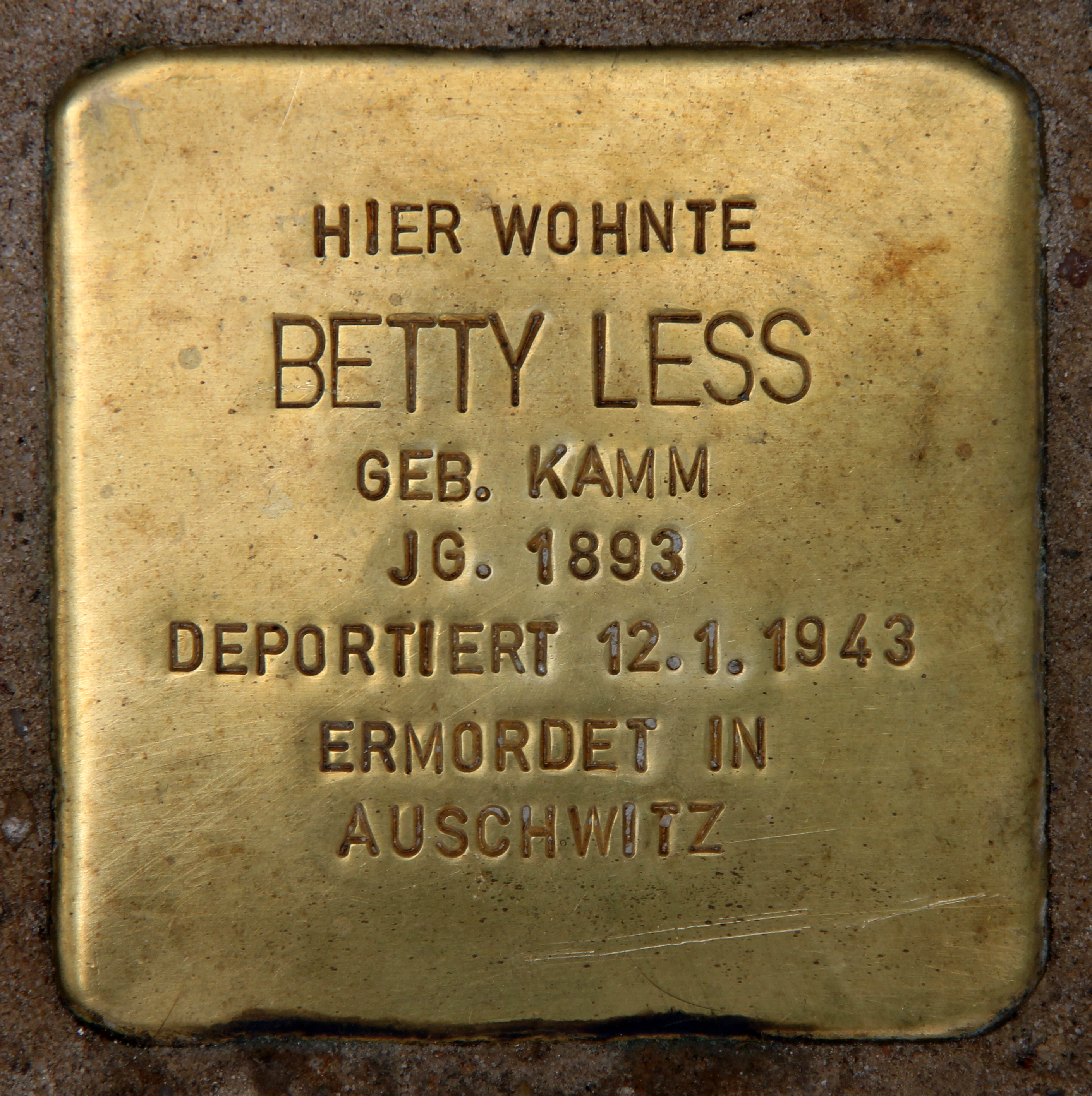 "Stolperstein" (stumbling block), Betty Less, Kleiststraße 31, Berlin-Schöneberg, Germany